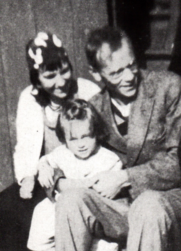 Finnish writer Tito Colliander with his wife Ina and daughter.